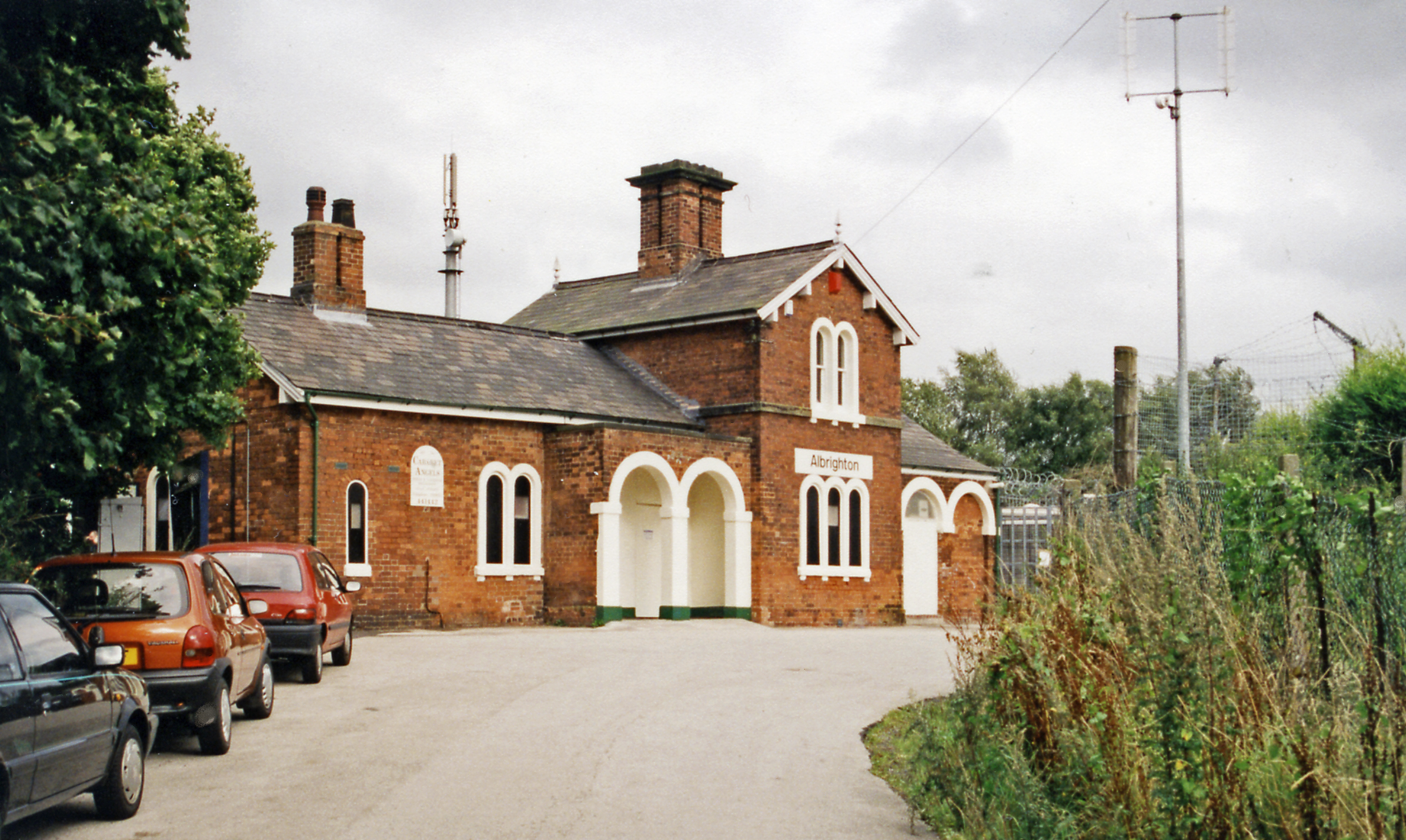 Albrighton station, exterior. View eastward, towards Wolverhampton, Birmingham etc.: ex-GWR Birmingham - Shrewsbury - Chester main line. The station had just been spruced up for its 150th anniversary.